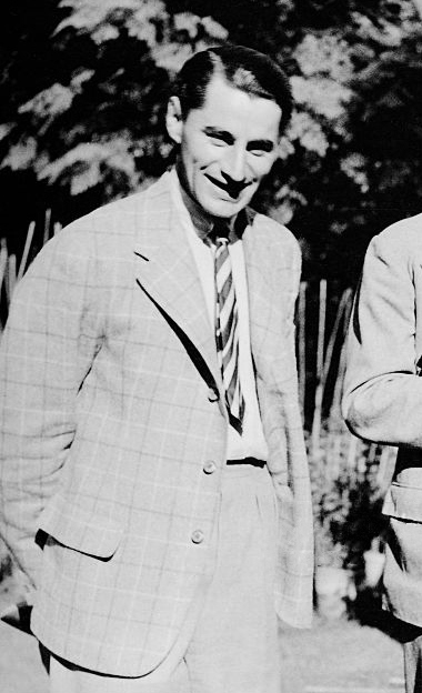 Cricketer Cyril Walters enjoying the sunshine in Calcutta during the tour of India and Ceylon, 28th December 1933.